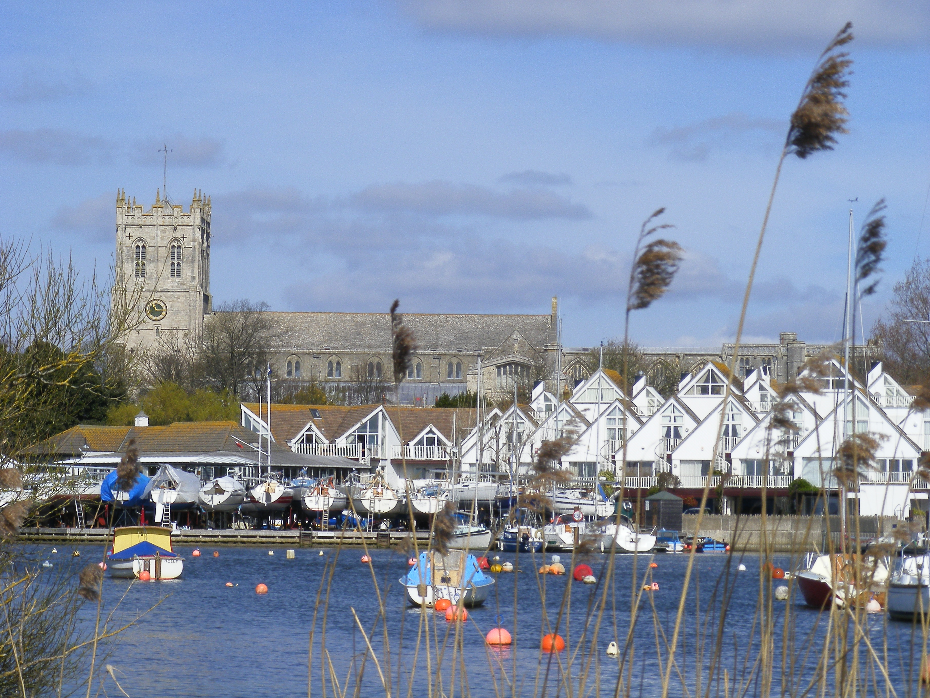 Christchurch Priory and quay by the mouth of the River Avon, from Wick Marsh.